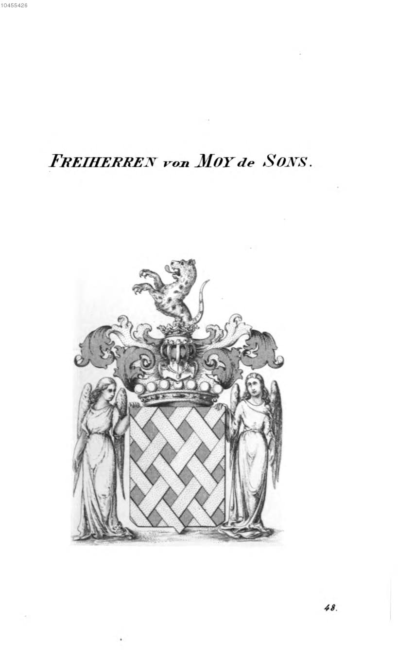 Wappen Moy de Sons - Tyroff AT.jpg